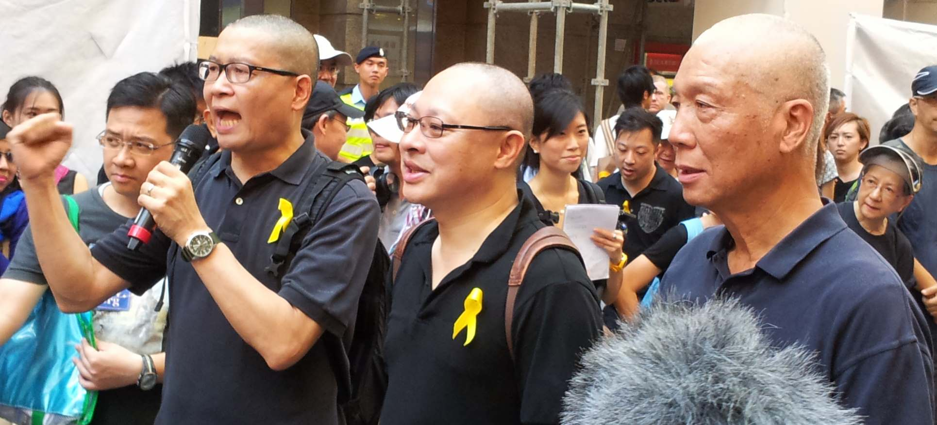 Occupy Central Leadership, East Point Road, Causeway Bay, Hong Kong, on 14 September 2014